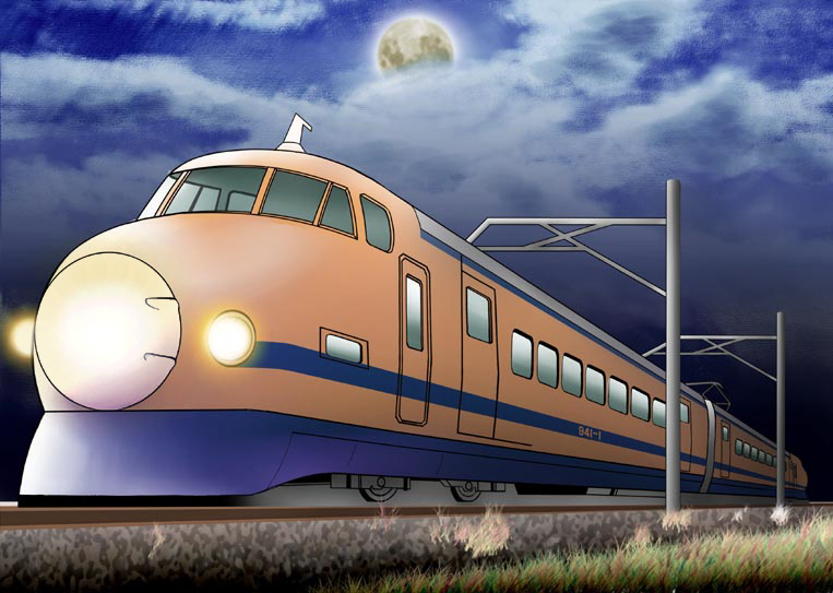 JNR SHINKANSEN TYPE941